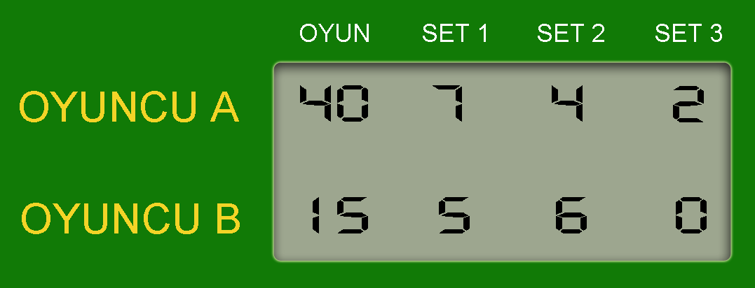 Tennis scoreboard